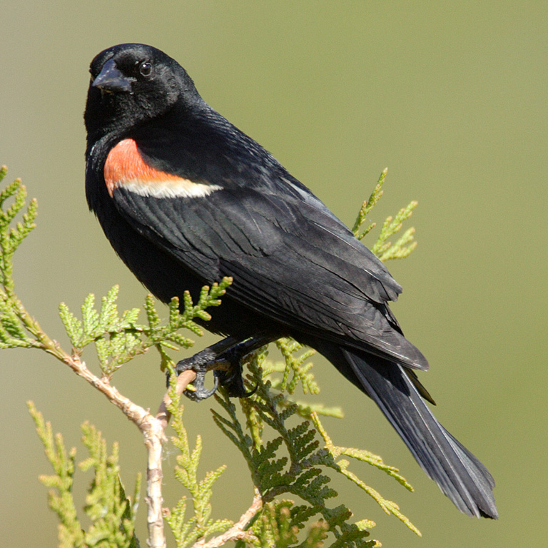 Red-winged Blackbird, male, Bluffer's Park (Toronto, Canada), 2005